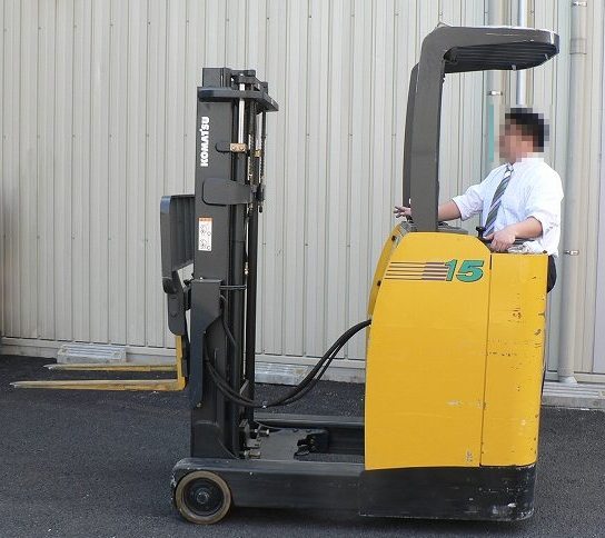 Reach lifttruck (with extended fork)